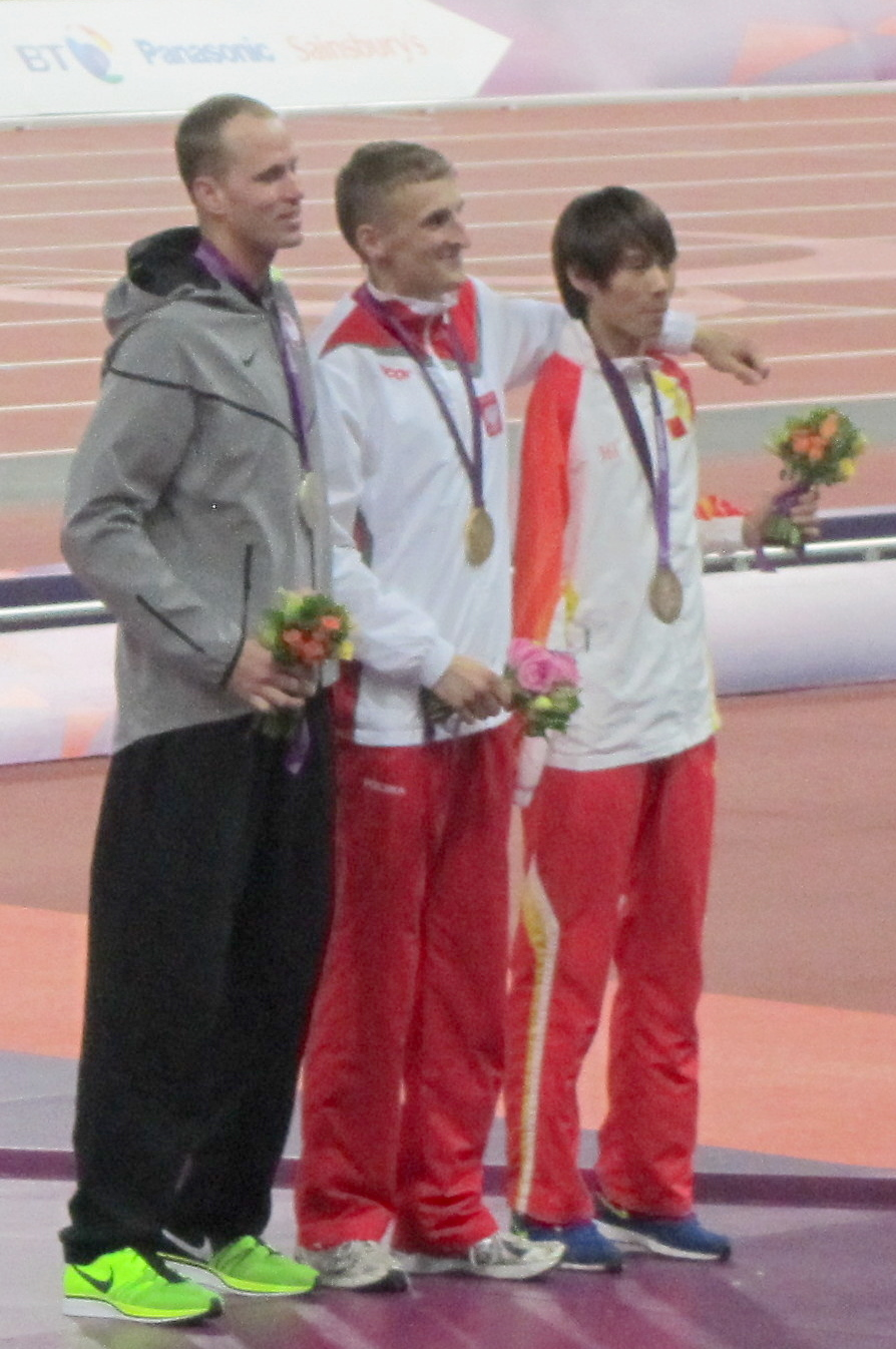 Gold: Maciej Lepiato (Poland); Silver: Jeff Skiba (USA): Bronze: Chen Hongjie (China)